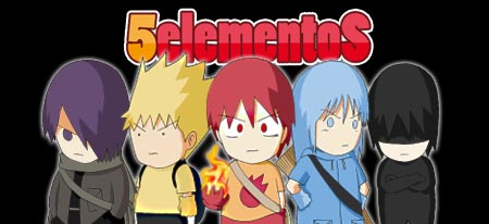 5 Elementos